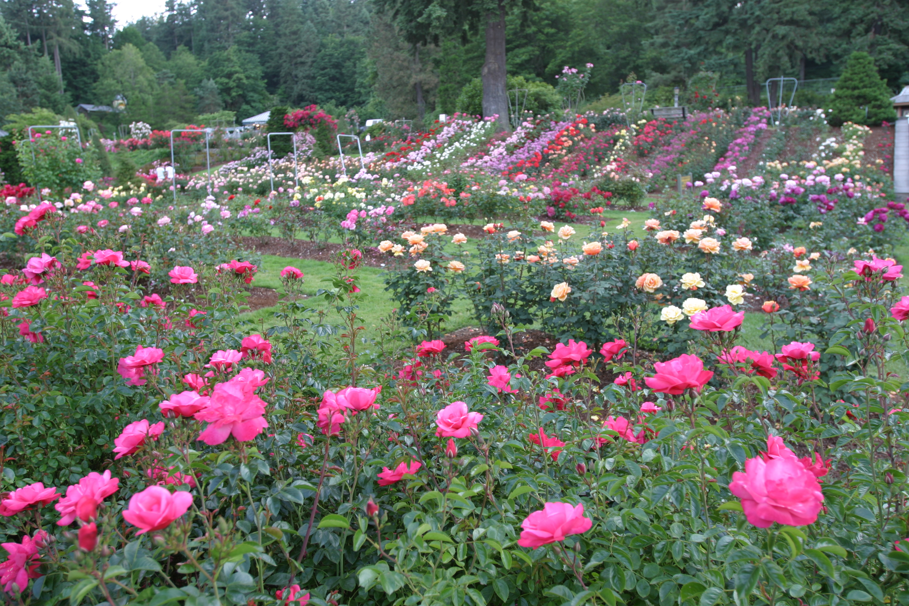 The Rose Test Garden in Portland, Oregon. In 1917, five acres of Washington park were designated as an area to test new types of roses. It currently contains over 8,000 rose plants.